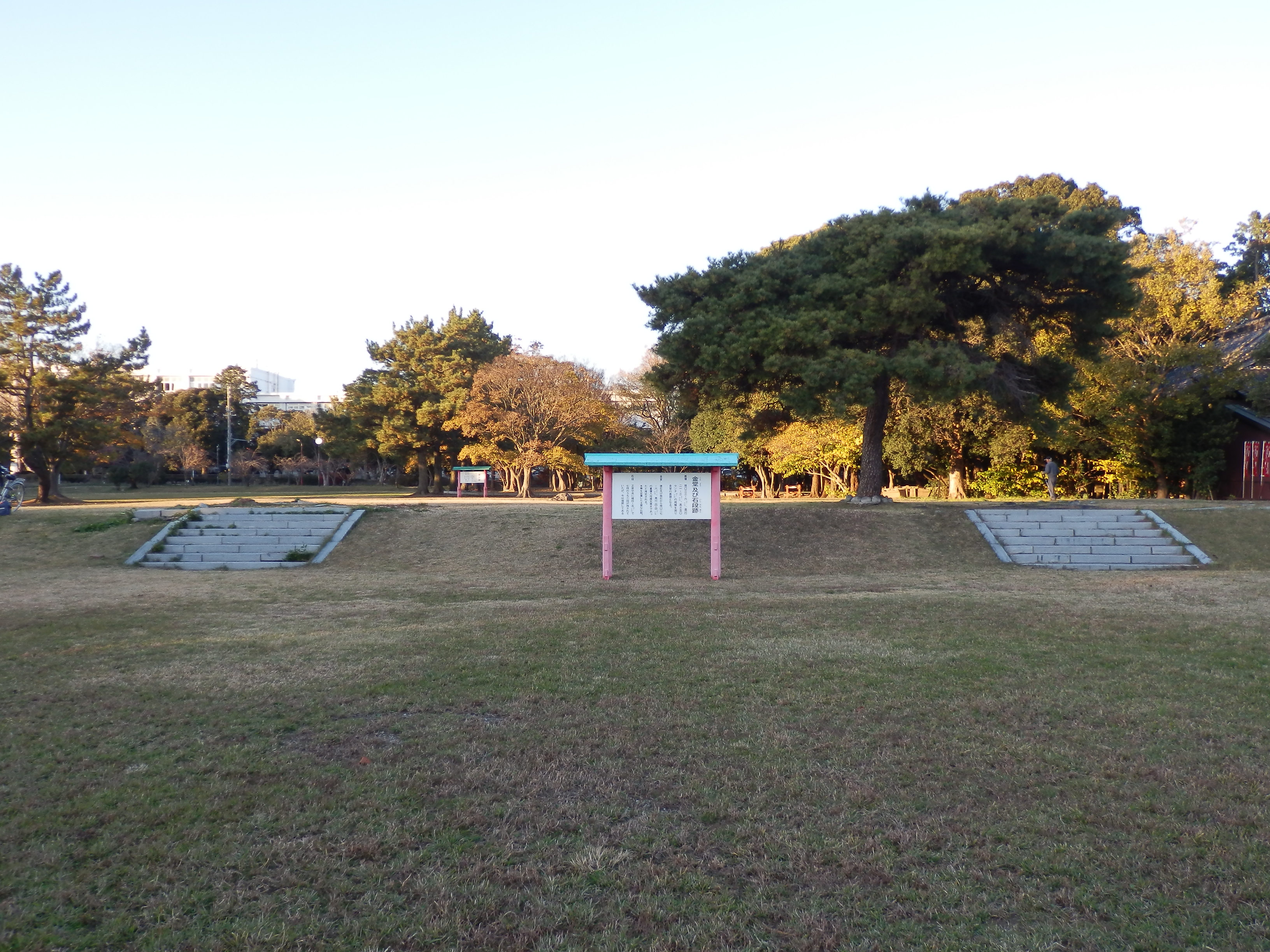 The ruins of the main hall (Kondō) of Tōtōmi Kokubunji Temple, in Iwata, Shizuoka Prefecture, Japan